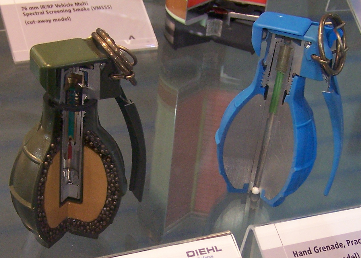 Cutaway view of fragmentation hand grenade DM61A1 and practice grenade DM78A1